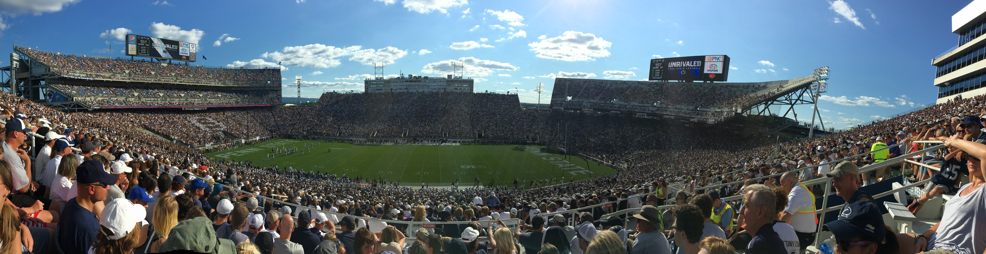 Beaver Stadium shown during the Kent State game in 2018.